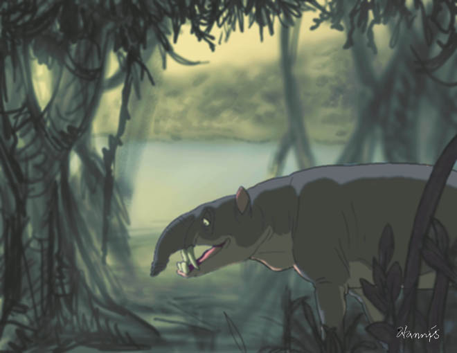 Reconstruction of Astrapotherium in natural habitat.